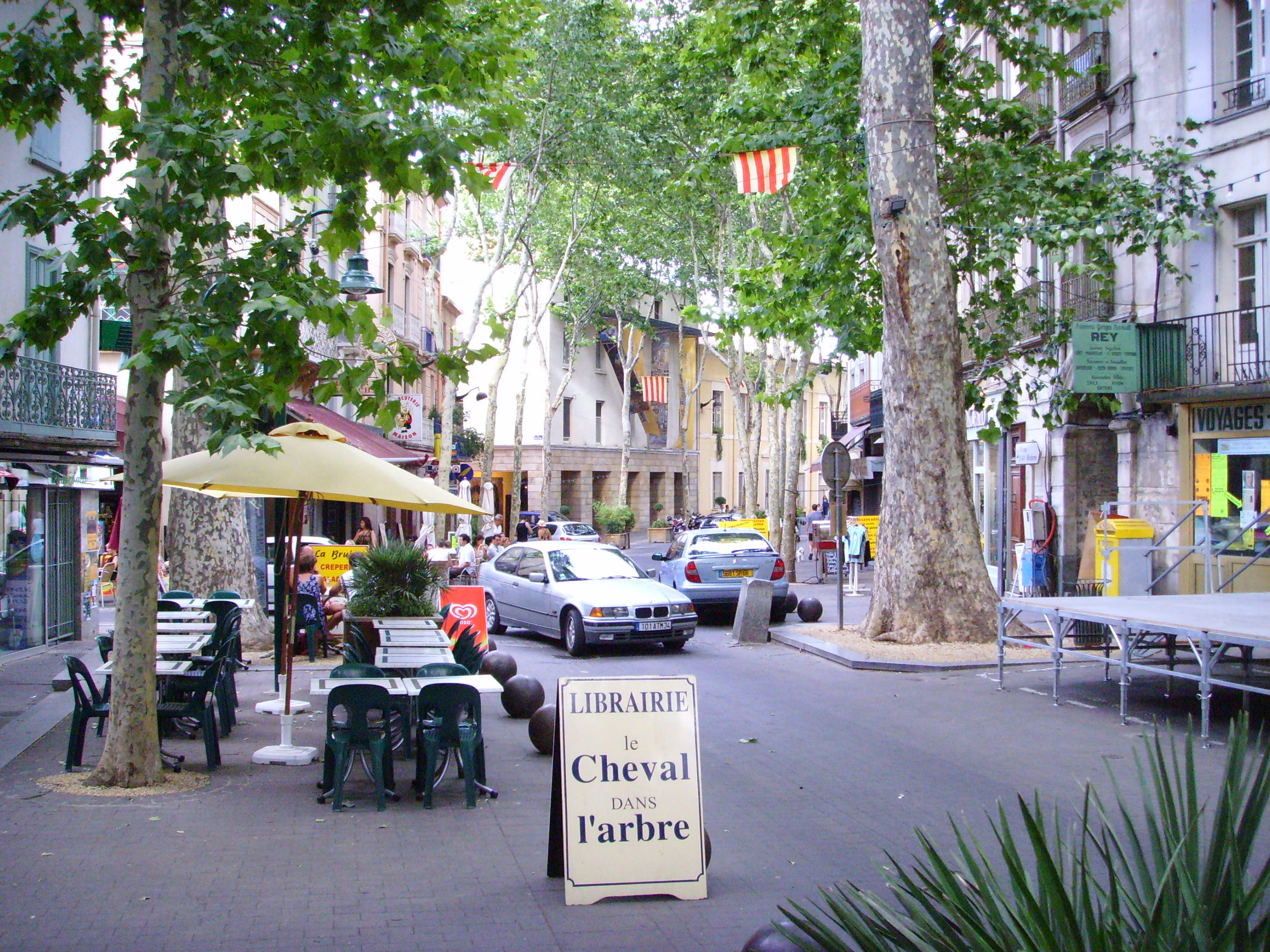 Céret (Pyrénées-Orientales, France) : Place de la République and Rue du Maréchal Joffre. Yellow building in the background is the city hall.